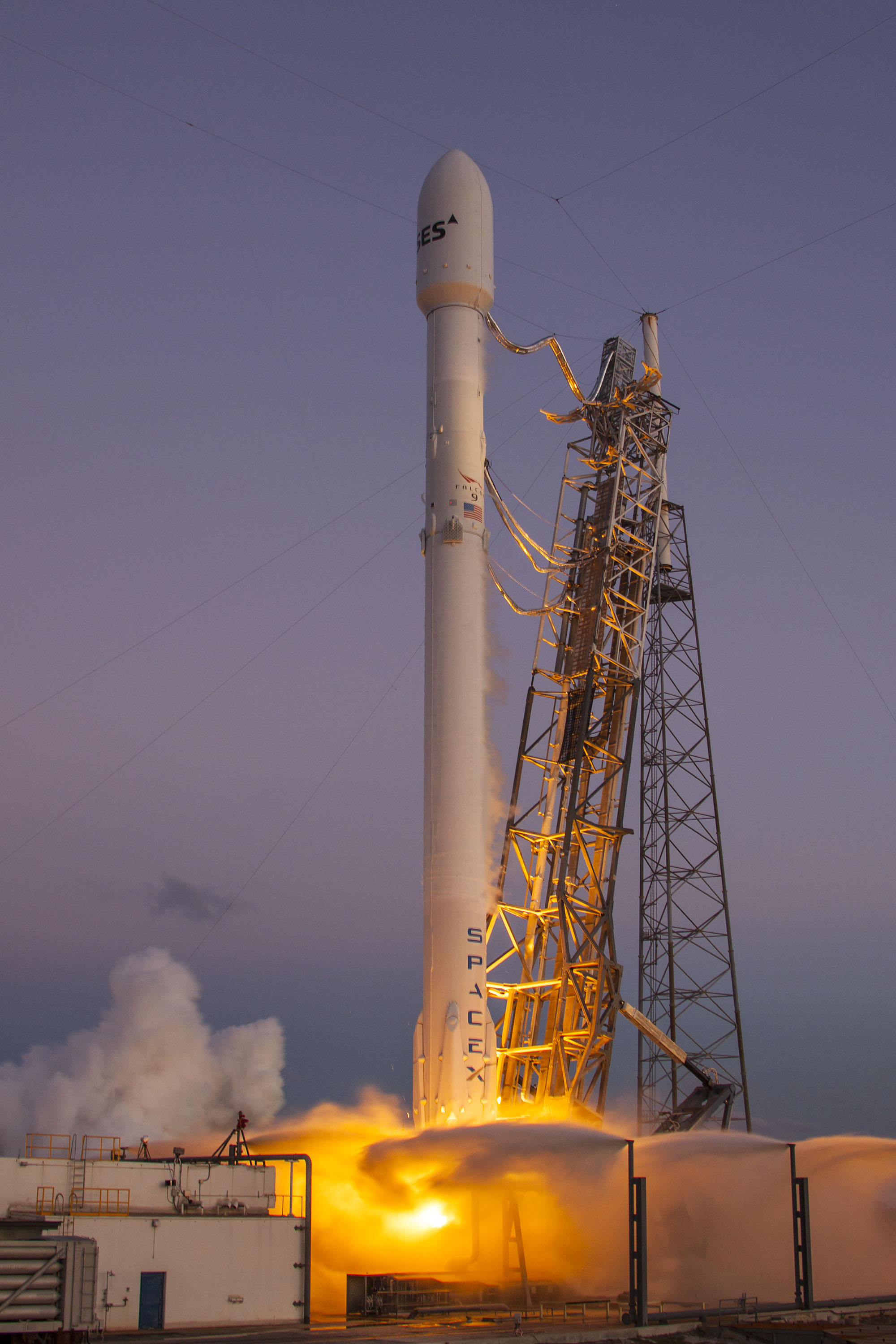 SES-9 launch